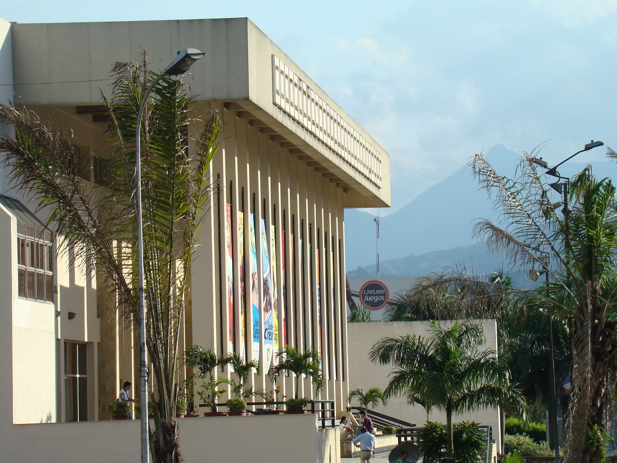 Biblioteca departamental de Cali, Colombia.